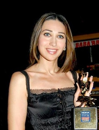 Indian actress Karisma Kapoor